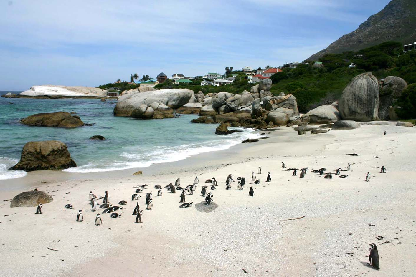 The African penguin colony at Boulders Bay